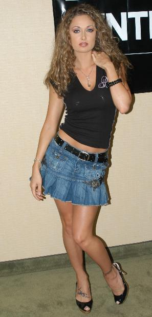 Melissa Jacobs at Penthouse Pet Playoff, September 13, 2006